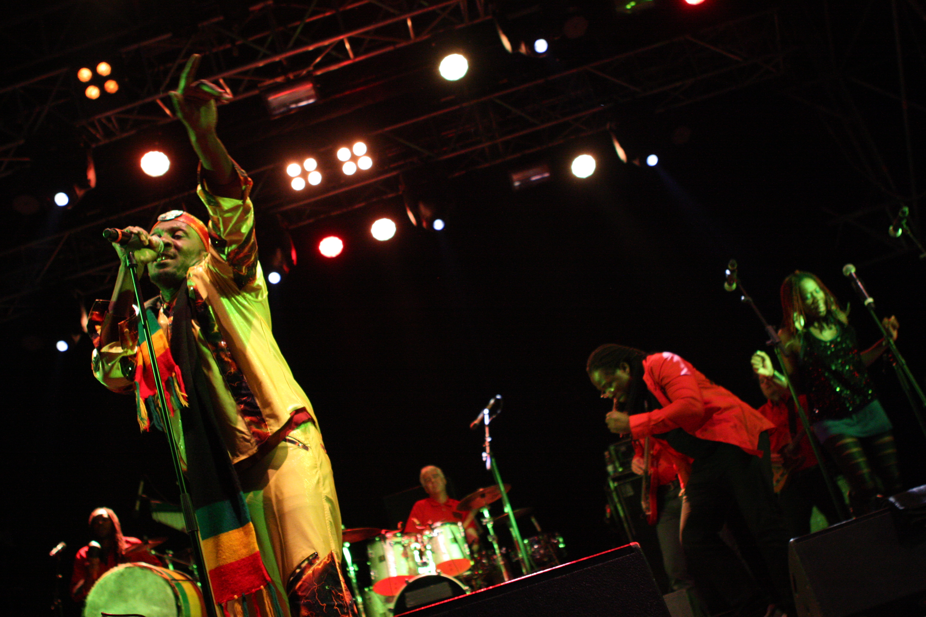 Jimmy Cliff, Jamaican musician, singer and actor, performing at the Picture on Festival 2012 in Bildein, Austria (2012-08-10)